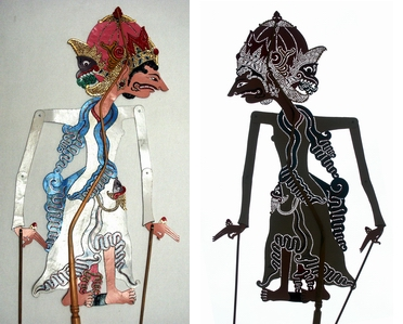 Nabi Hidir, wayang kulit figure from the epos Serat Menak Sasak